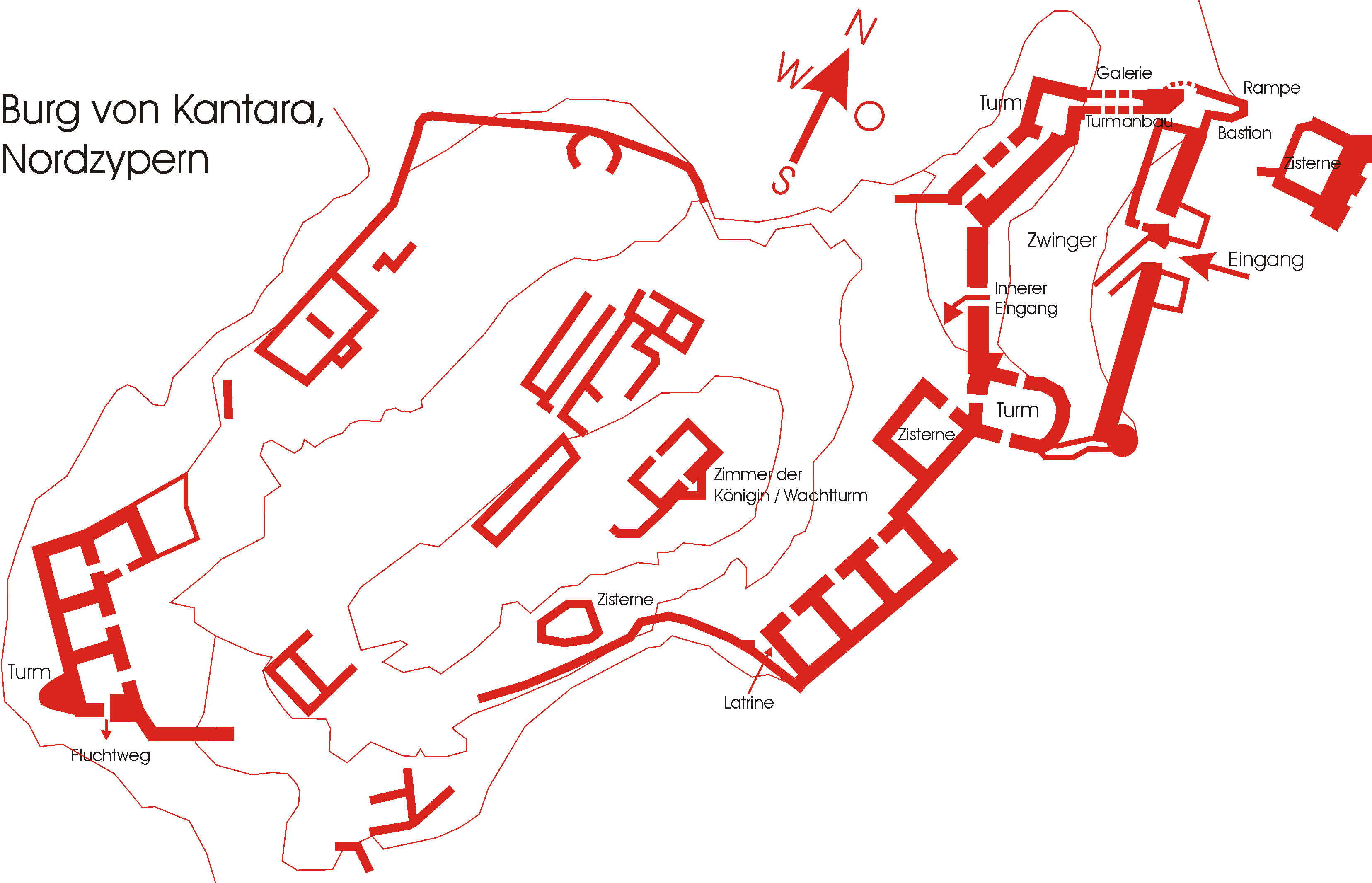 Maps of Kantara Castle, North-Cyprus